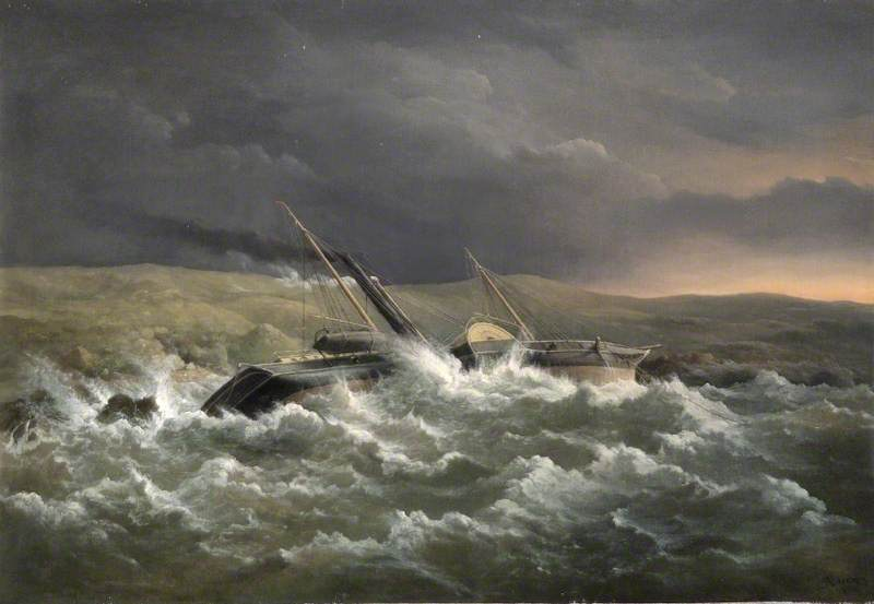 "HMS Danube", pressed ashore in the Cossack bay, Sevastopol, Ukraine, on November 14, 1854 (Command Ralph P. Cator)